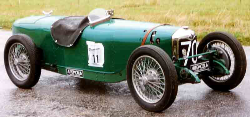 Riley Nine Brooklands 1929